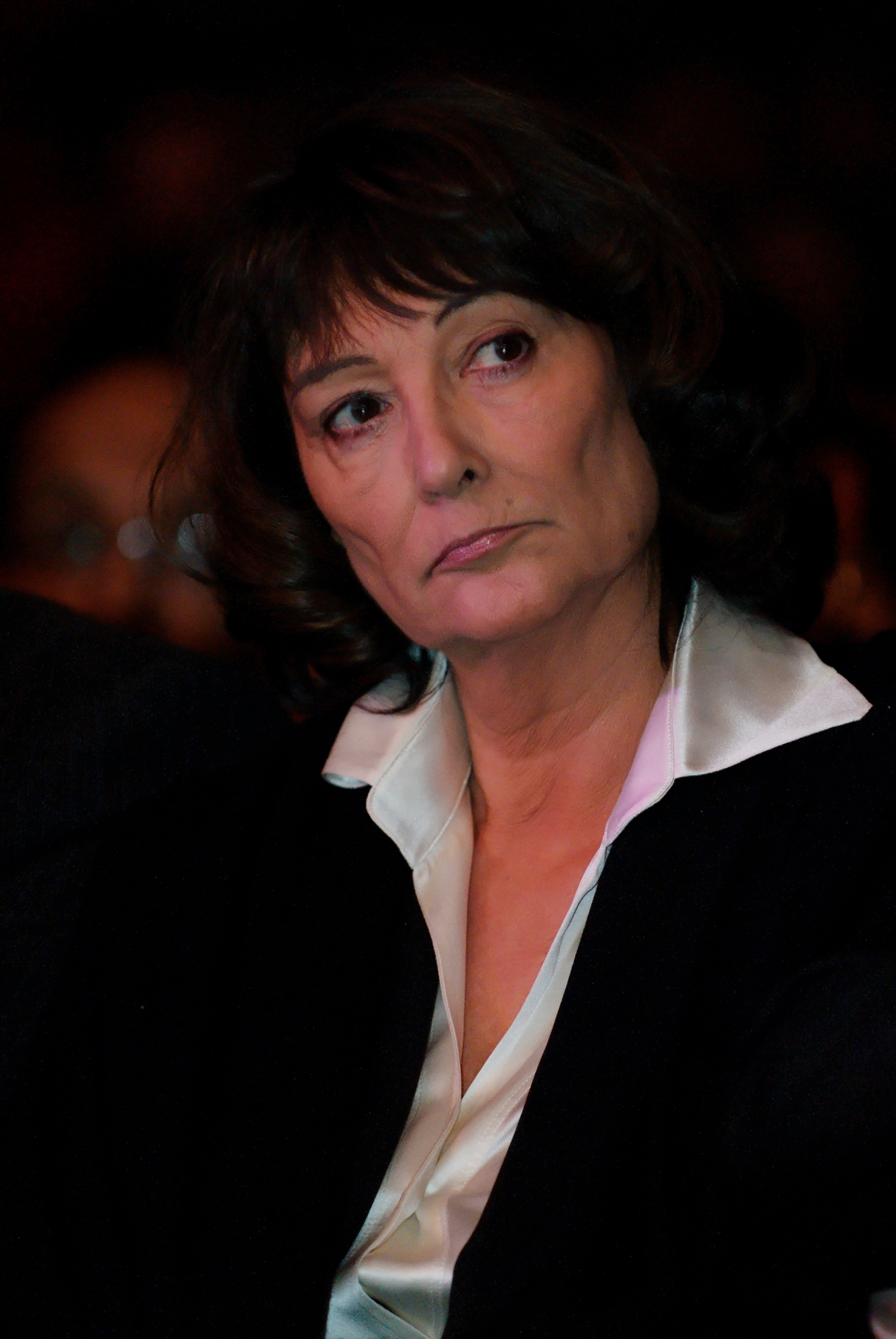 Sylviane Agacinski. Political rally on February 27, 2008 at the Zenith (Paris) for Bertrand Delanoë's campaign in the 2008 Paris town elections.